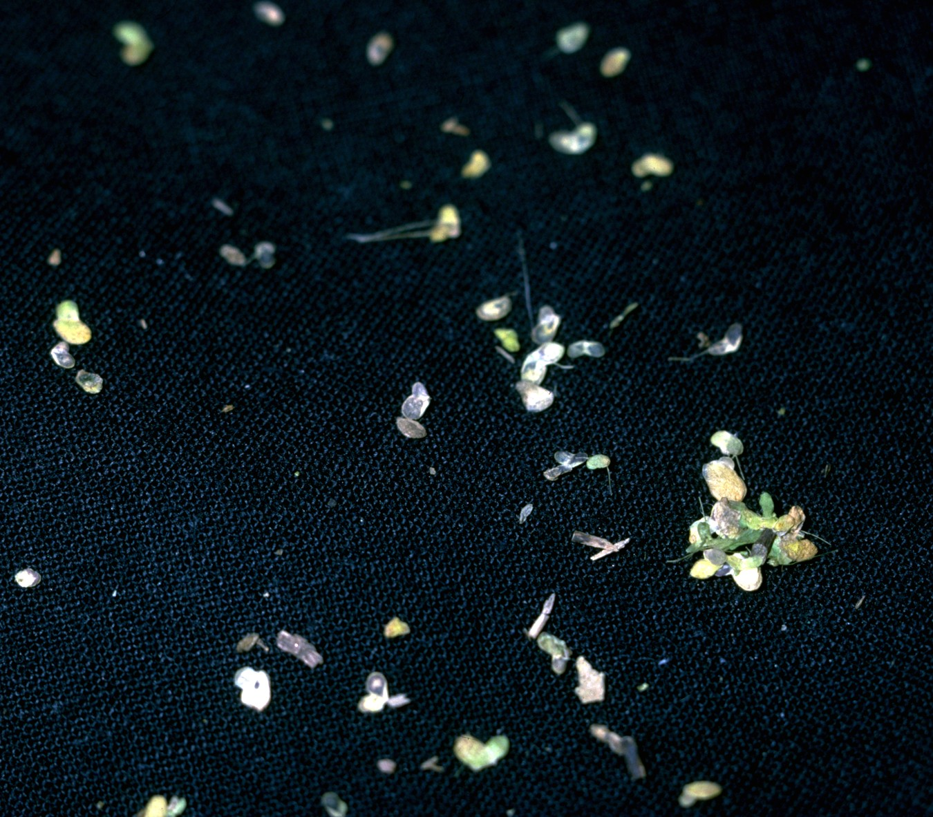 Lemna valdiviana from Robert H. Mohlenbrock. USDA NRCS. 1992. Western wetland flora: Field office guide to plant species. West Region, Sacramento. Courtesy of USDA NRCS Wetland Science Institute.